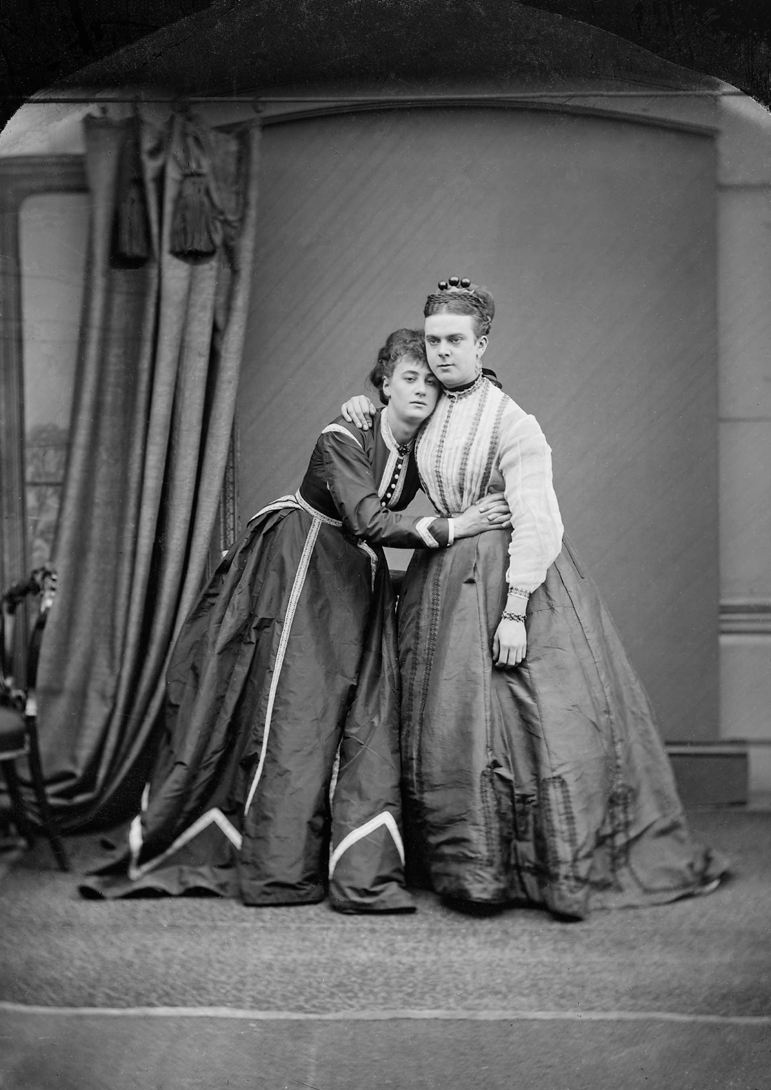 Female impersonators Frederick Park and Ernest Boulton. This photograph taken less than a year before their arrest by the Metropolitan Police for "conspiring and inciting persons to commit an unnatural offence". The original photograph is held by the Essex Record Office and an un-restored scan made available on their blog in February 2013. The photograph was used as a full page spread in Attitude (a UK gay lifestyle magazine) in August 2013, issue 234 and appears in a cropped form but otherwise unaltered in the book "Fanny & Stella, The Young Men Who Shocked Victorian England" (2013) ISBN 9780571231904. Digital restoration The glass plate original had a major break in the upper left side, this has been realigned with the cracks masked. The bottom right corner was missing, this has been recreated. Other minor voids and some of the most distracting dirt and scratches have been replaced. Exposure and light balance are left unchanged.